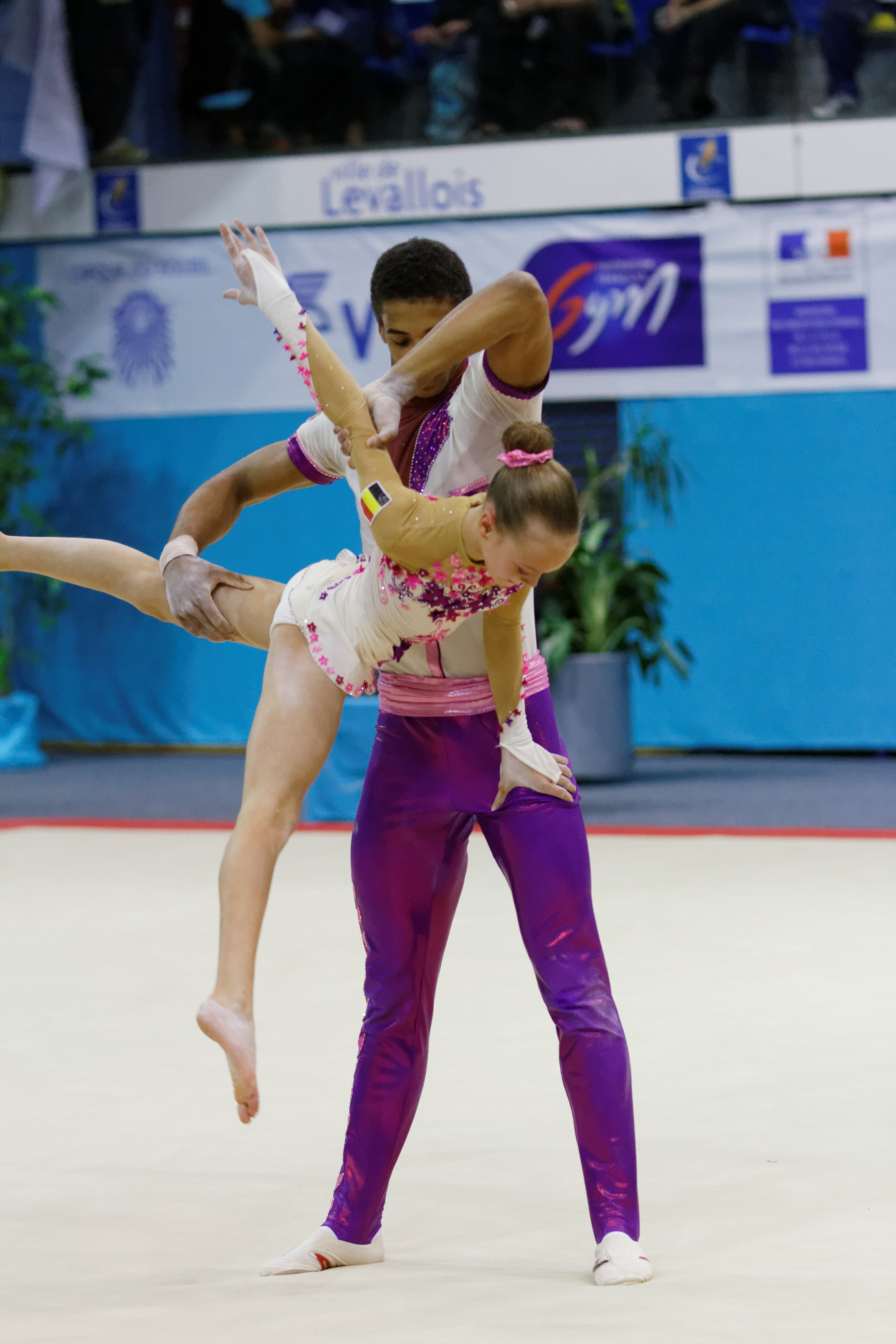 2014 Acrobatic Gymnastics World Championships, 10th-12 July, Levallois-Perret, France. Qualifications: mixed pair. Belgium .